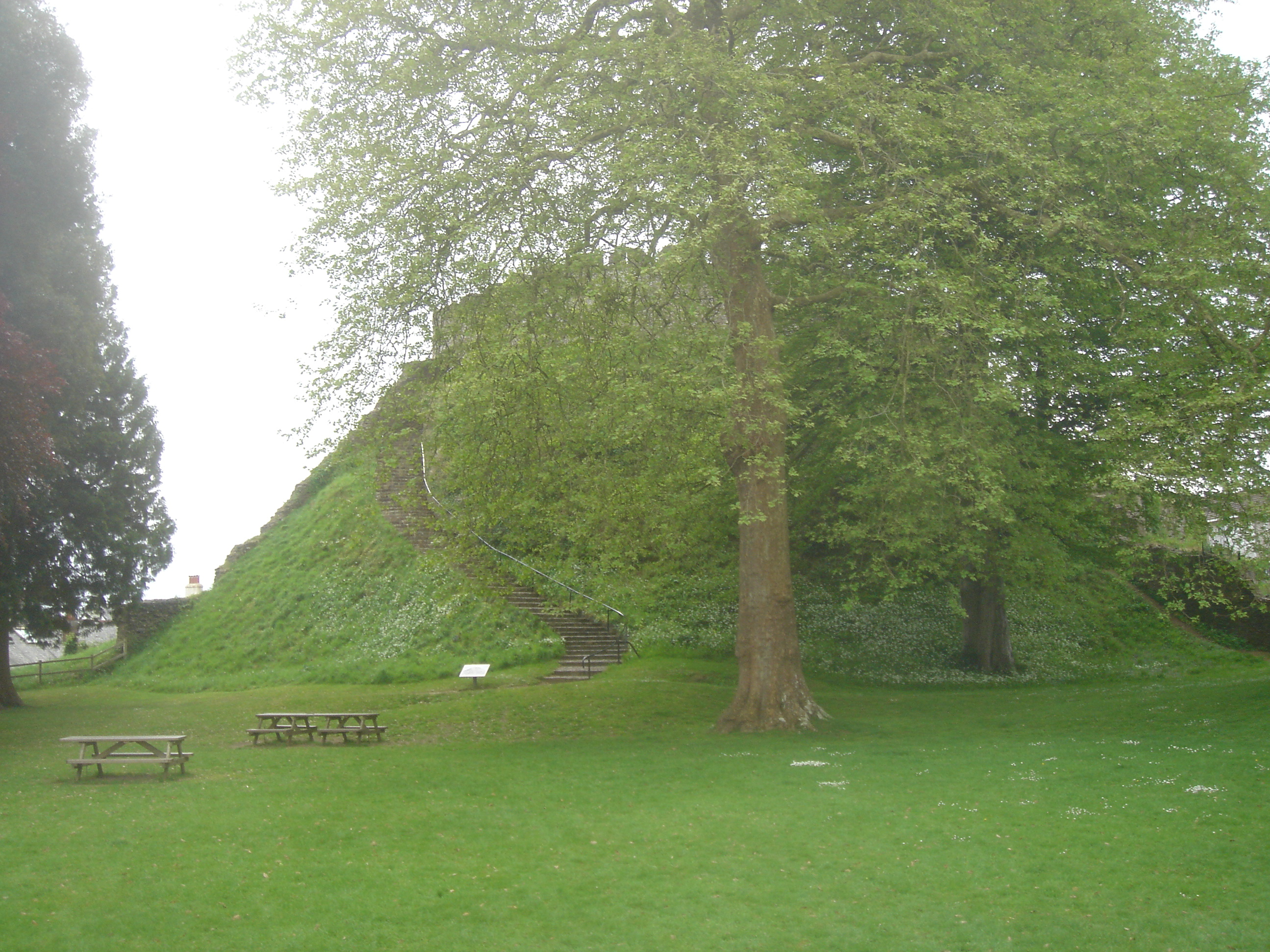 Totnes Castle, Devon, UK, motte and castle keep from inner bailey